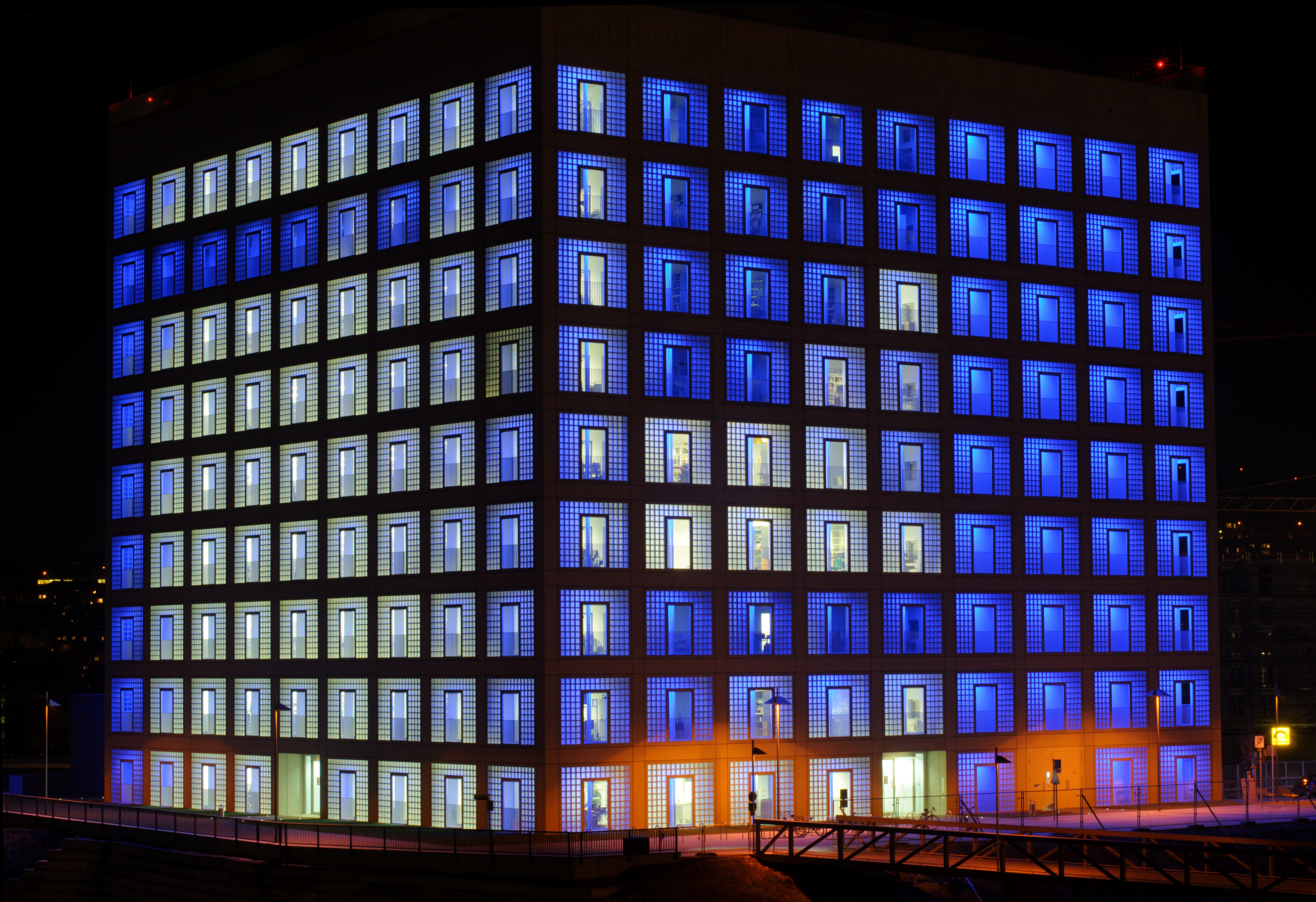 Stuttgart, the new municipal library by night